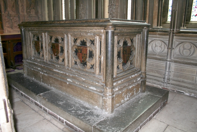 Prince Arthur's Tomb, Worcester Cathedral Housed inside its own chantry beside the high altar. If Arthur had lived his younger brother, Henry VIII, would not have become king, perhaps the reformation would never have taken place and we could still be living in a catholic country. His death was a pivotal moment in world history.